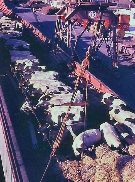 Transport of live animals (cattle) on the deck of a cargo ship between Chilean ports (SAWK) - 1963